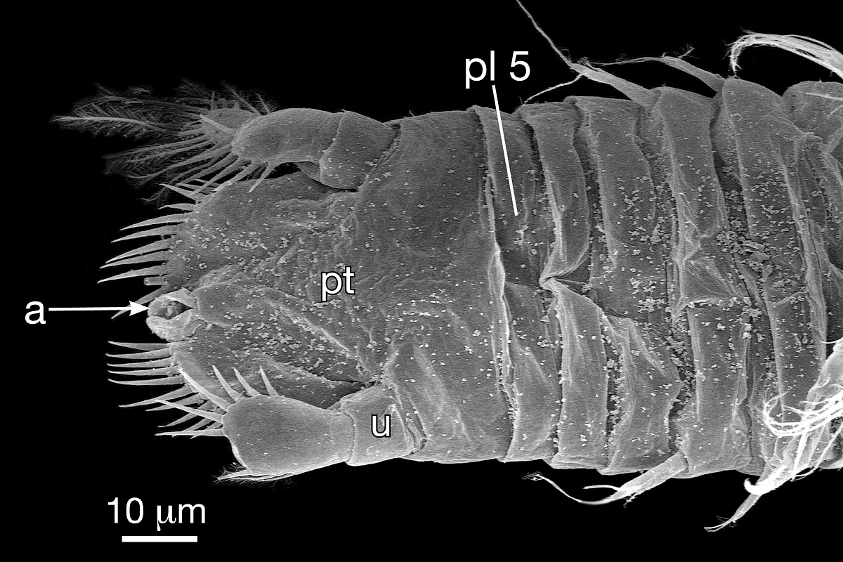 Thermosbaena mirabilis (Crustacea: Malacostraca: Thermosbaenacea), pleon (ventral view), with anus opening terminally on the pleotelson.